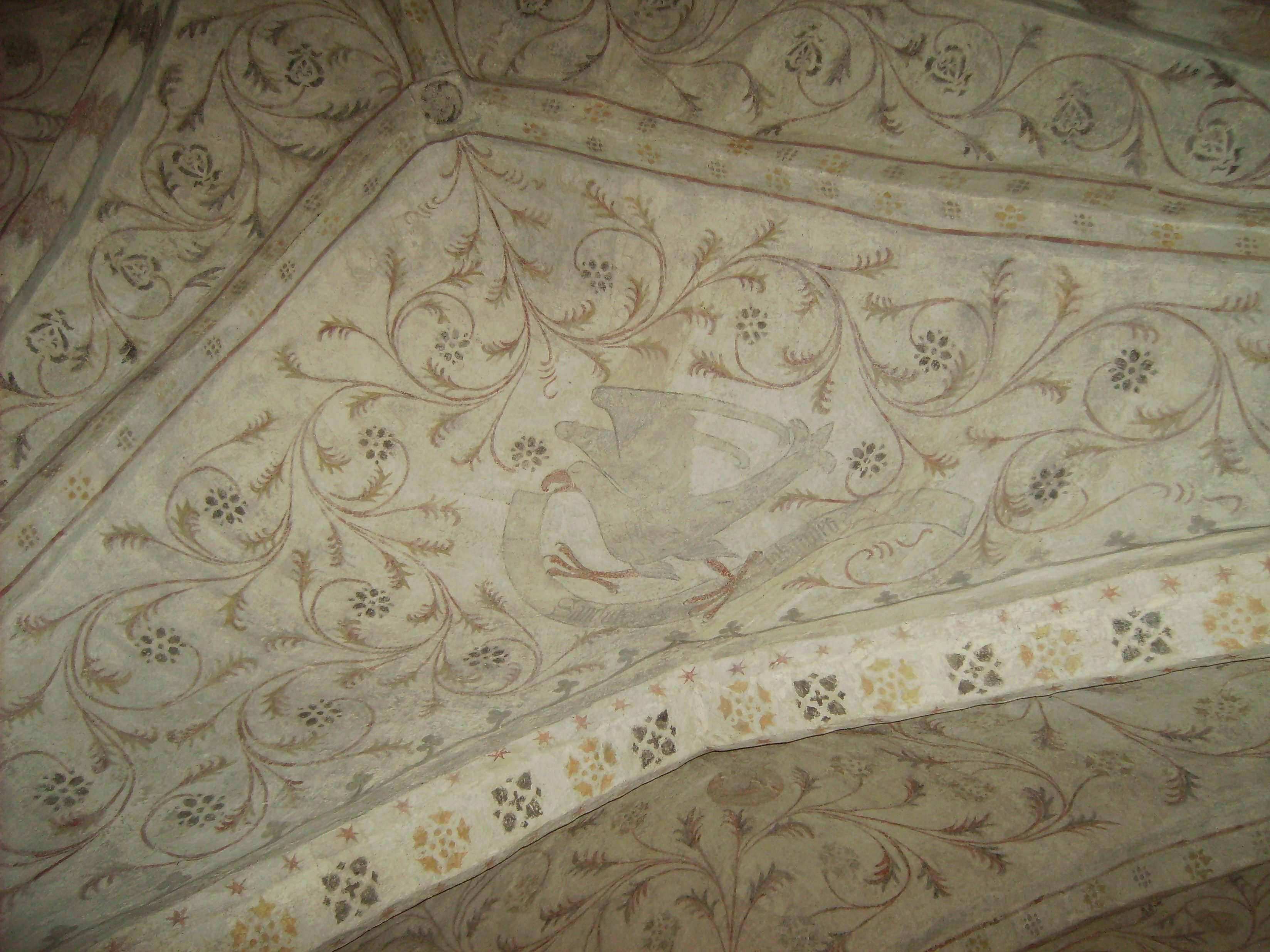 Medieval mural paintings in Cathedral of Åbo, Finland.